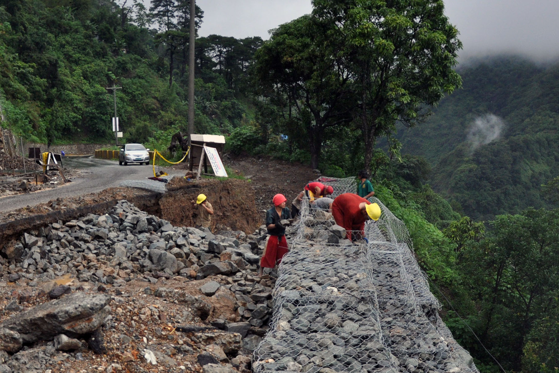 Laborers work despite the inclement weather to finish the retaining wall along the Uabac Section of Kennon Road.